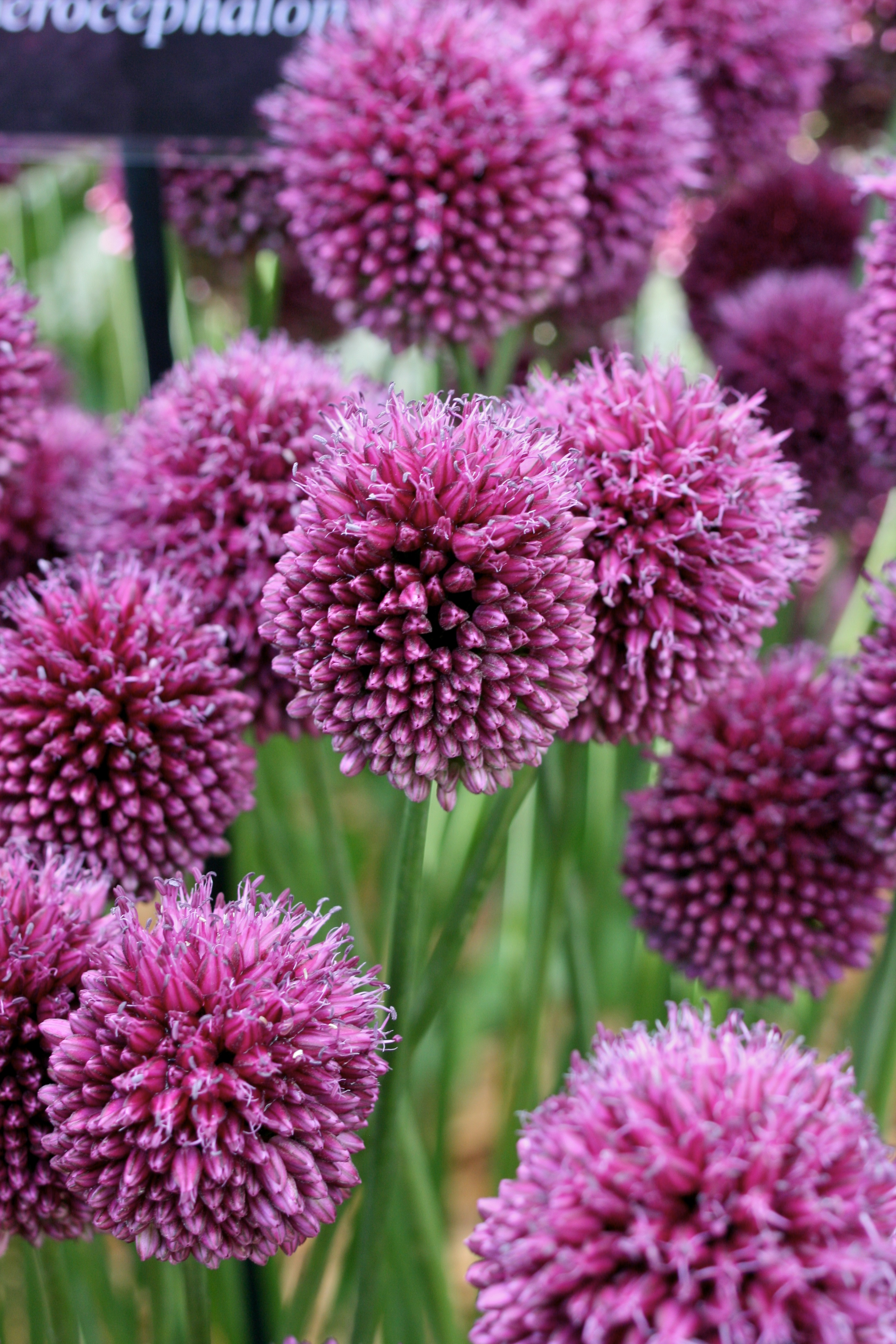 Allium sphaerocephalon. Taken during Tatton Park Flower Show 2009